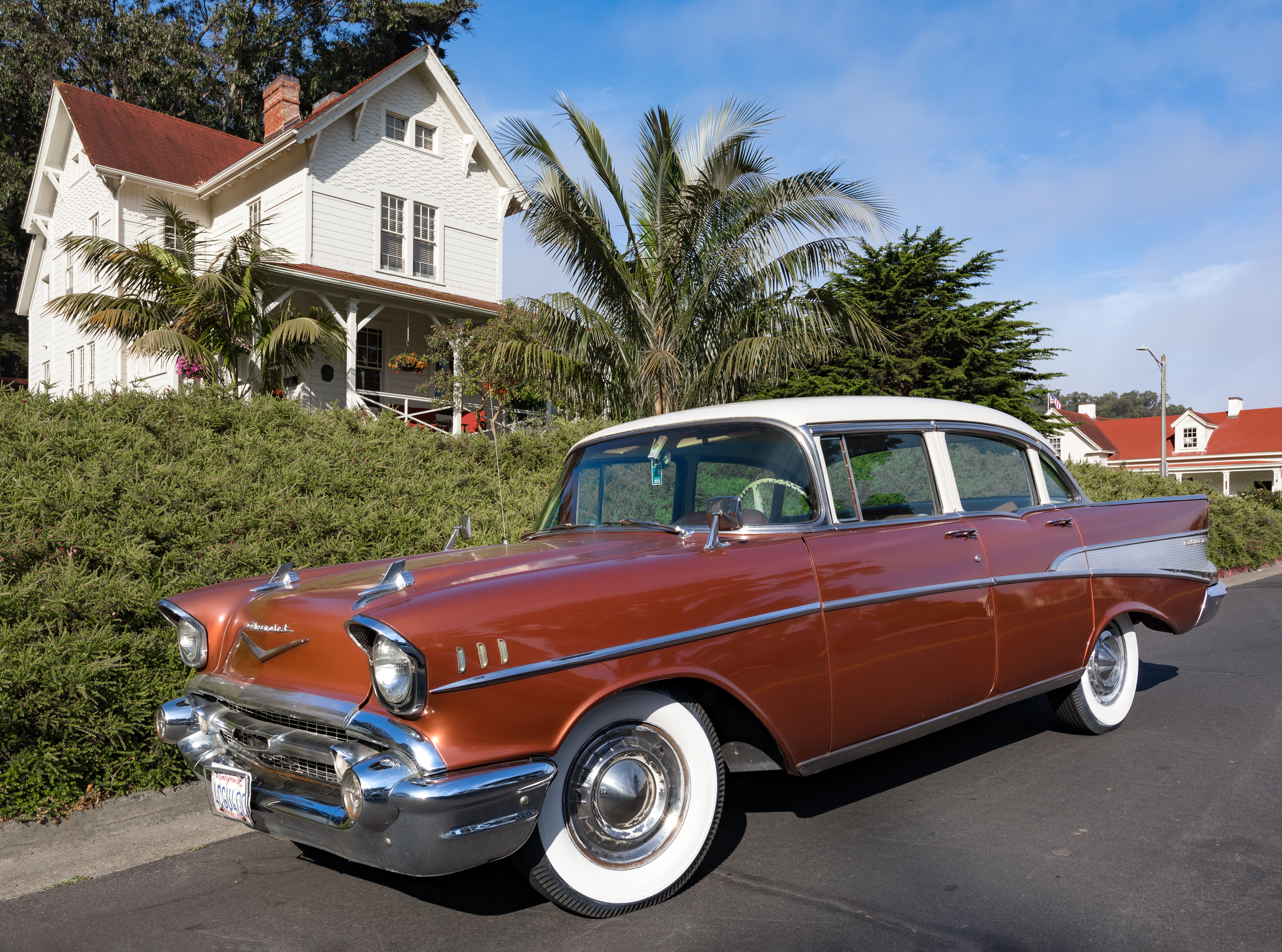 A 1957 Chevrolet Bel Air 4-Door Sedan parked on Presidio Boulevard near the corner of Funston Avenue in the Presidio of San Francisco on the morning of July 25, 2019.